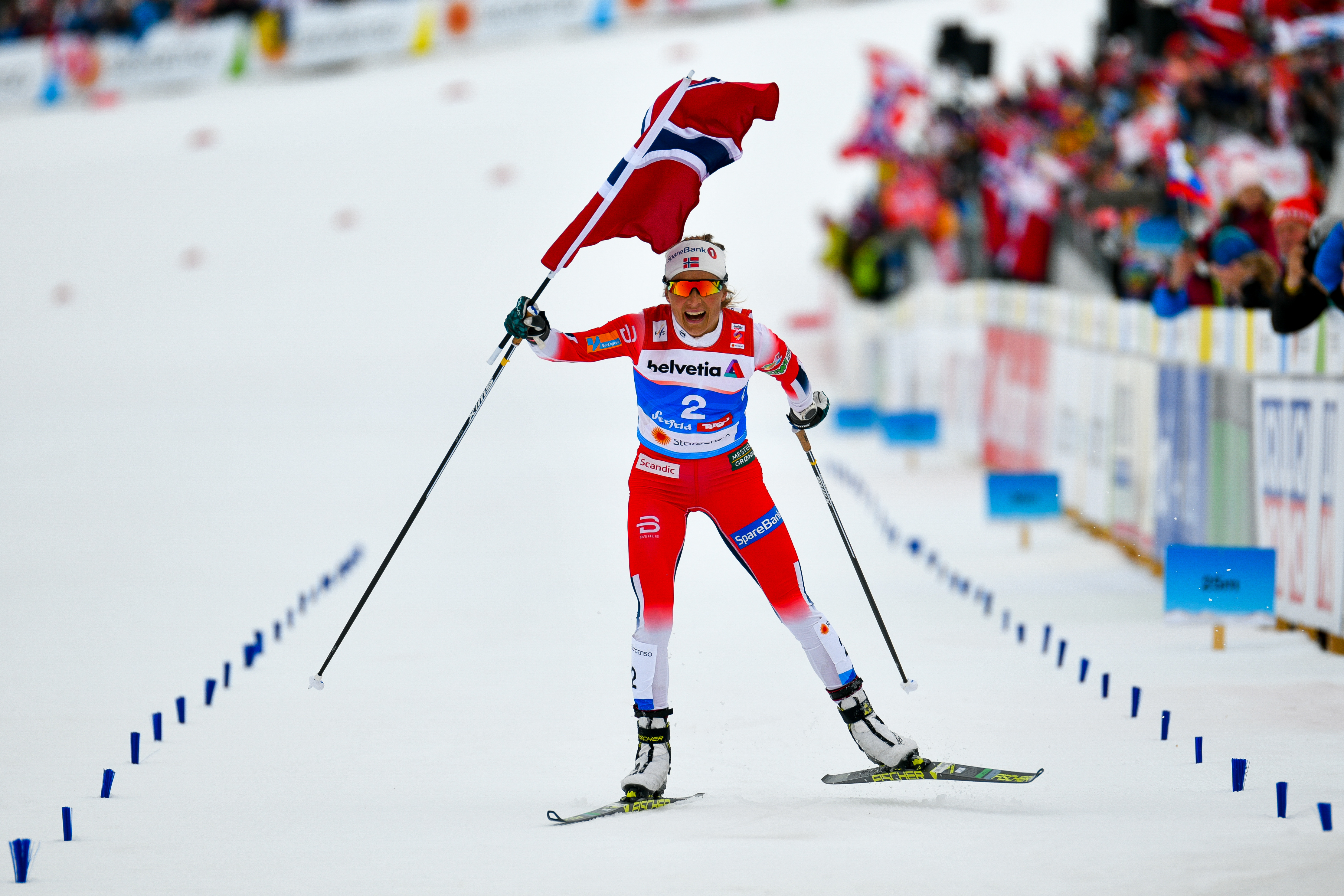 FIS Nordic Wolrd Ski Championships Seefeld 2019 - Ladies 30km Mass Start Free. Picture shows Therese Johaug (NOR).